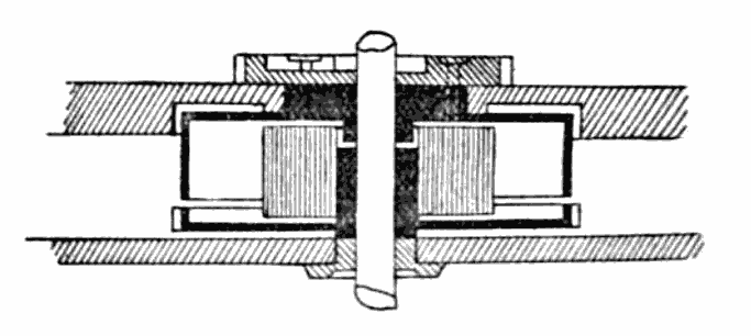 Drawing of a 'going barrel' type mainspring barrel in a watch, sectioned through the axis. The mainspring is shown fully wound, tight around the winding arbor. The wheel attached with screws at top is the ratchet, to prevent the mainspring from unwinding. This was from a keywind pocketwatch; the winding arbor (axle) extended to a squared off section (not shown) accessible through a hole in the back. A key was inserted through the hole, fitted on the shank, and turned to wind the watch. Besides the arbor, this is similar to a mainspring barrel in a modern watch. Alterations: removed caption, sharpened, converted to PNG.